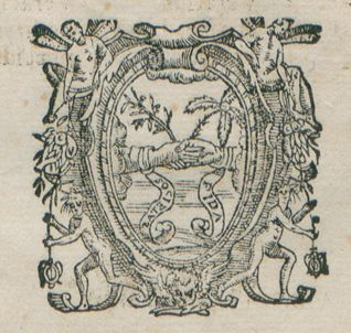 Carlino's mark